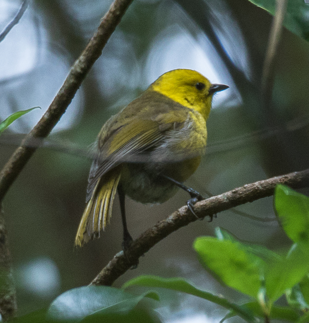 Yellowhead - New Zealand_FJ0A7148